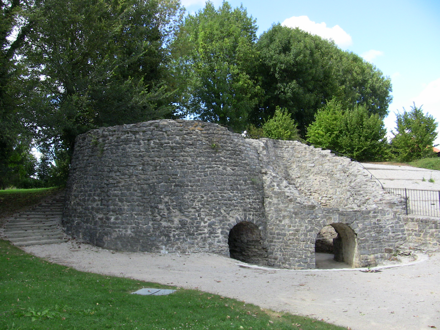 Lime kilns were used in the village of Chalezeule for producing hydraulic lime. These are used for the construction of the docks of Besançon.